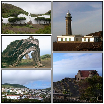 Phoenicean Juniper (Juniperus phoenicea) at El Sabinar, El Hierro, Canary Islands (Spain). Picture taken by myself in February 2003.